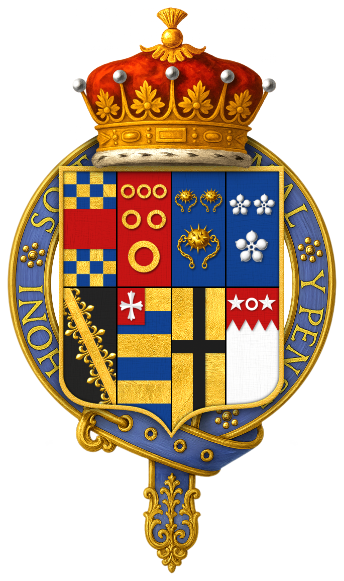 Quartered arms of Sir George Clifford, 3rd Earl of Cumberland, KG. 1st: Clifford; 1st: Chequy, or and azure, a fess gules (Clifford); 2nd: Azure, three horse barnacles(?) or 3rd: Sable, a bend flory counter flory or (Bromflete, which brought the title of Vesci into the house of Clifford); 4th: Or, a cross sable (Vesci); 5th: Azure, three cinquefoils (Bardolph); 6th: Gules, six annulets or (Vipont); 7th: Barry of six, or and azure, on a canton gules a cross fleury argent (Aton); 8th: Argent, on a chief gules two mullets or (St John)